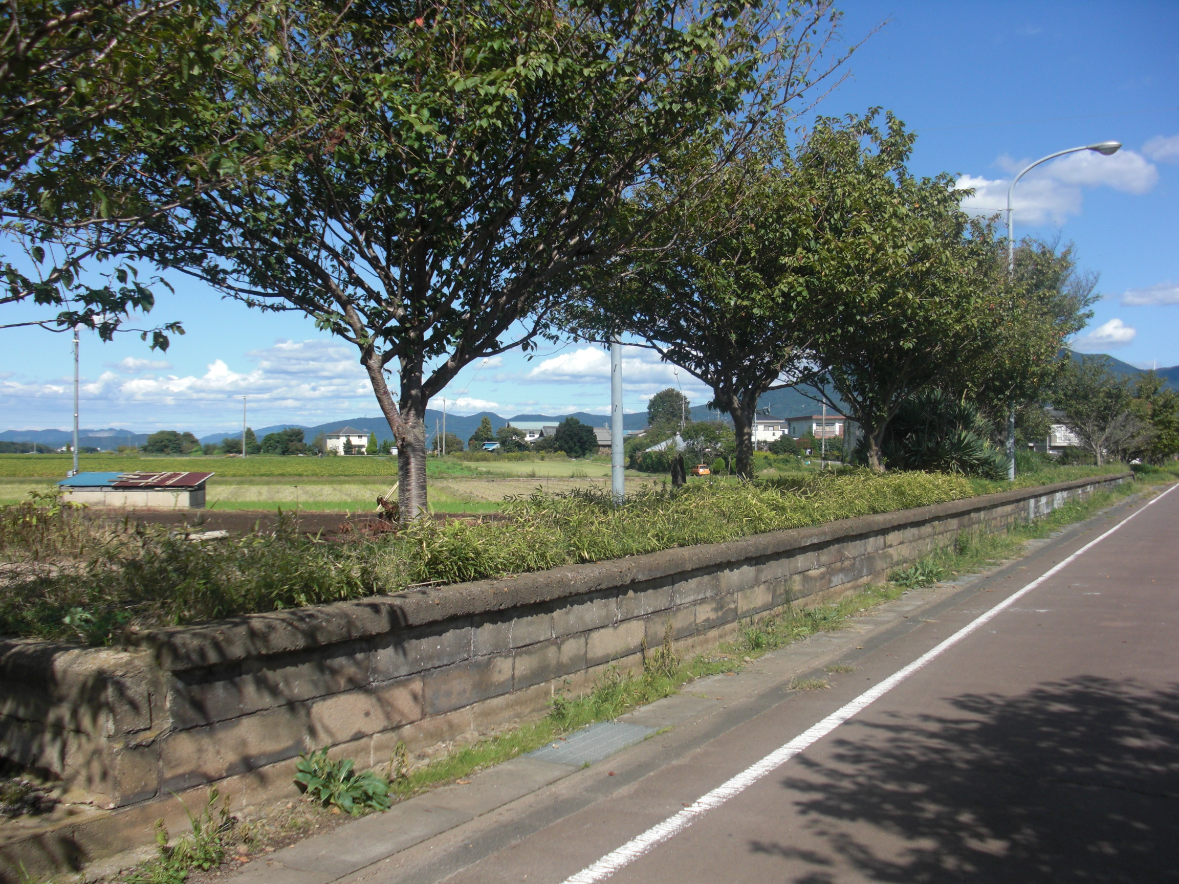 This is a site of Shiio station in Japan. This station belonged to Tsukuba railway for 69 years.